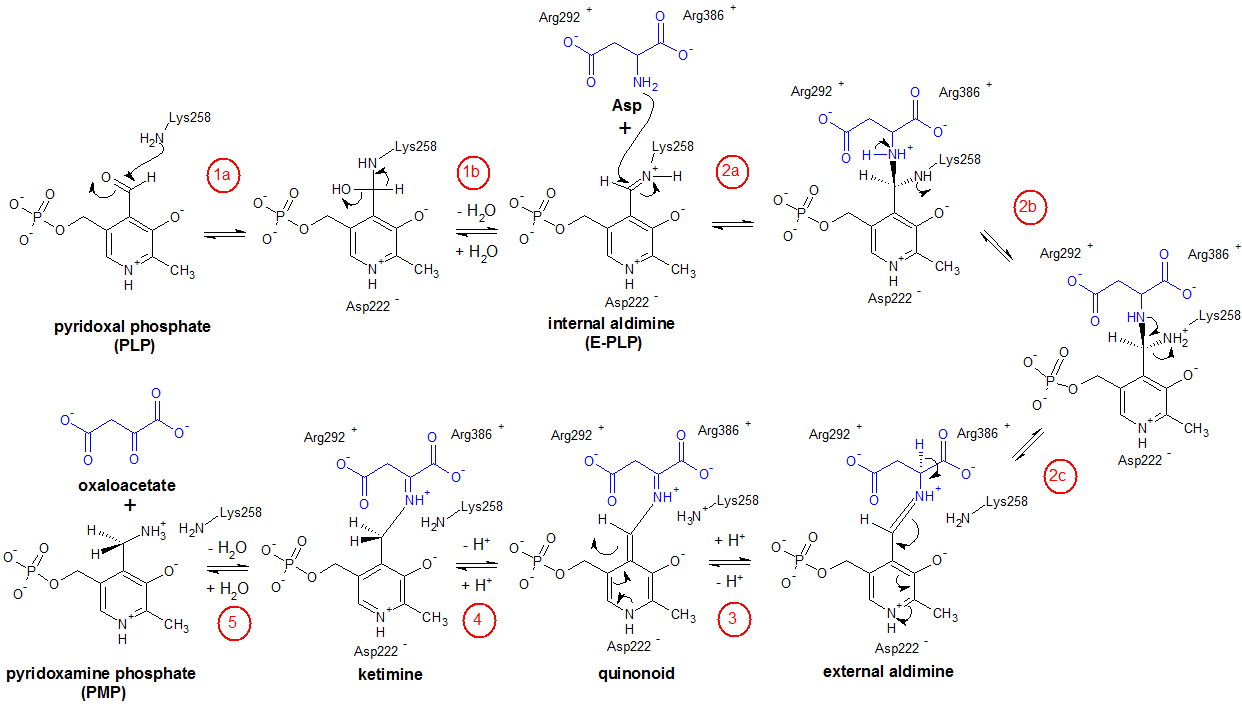 Proposed mechanism for the half-reaction catalyzed by aspartate aminotransferase: Enzyme-PLP + aspartate ⇌ Enzyme-PMP + oxaloacetate. Adapted from Kirsch et al. (1984)[1]. Created using ACD/ChemSketch v12.01 (freeware version)